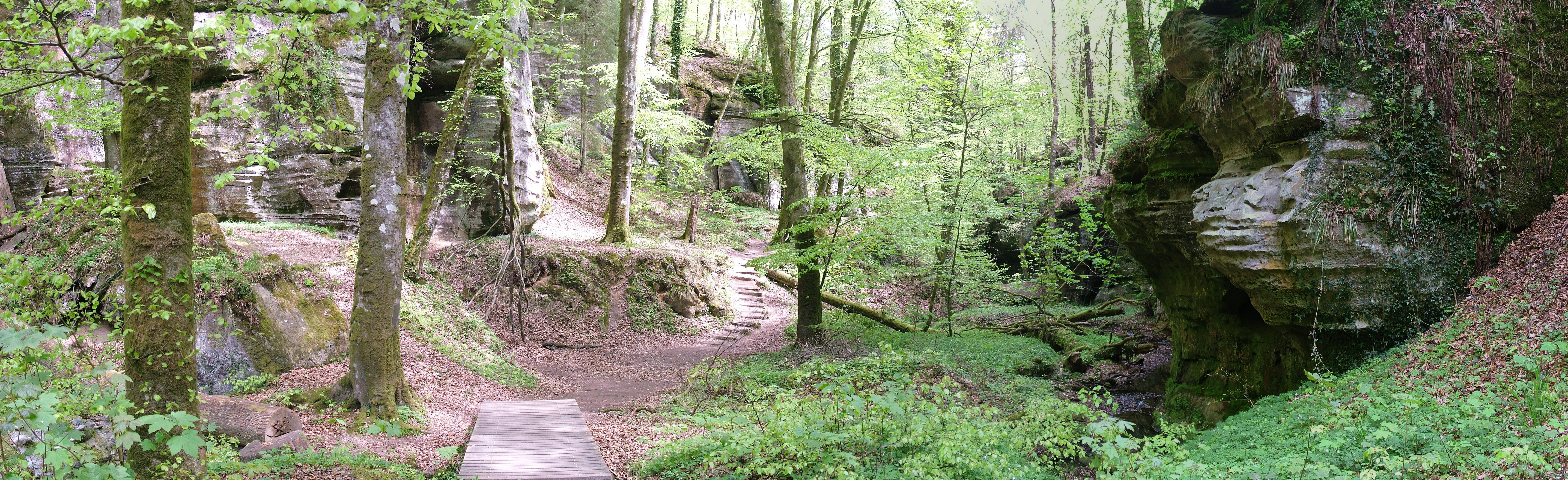 Panoramic view on Echternach pedestrian route 1 (Echternach - Berdorf - Echternach) near the Amphitheater.